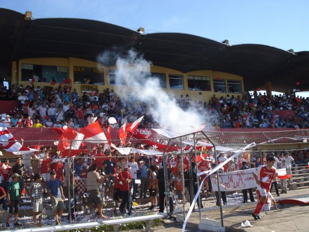 The fans of Tacuarembó F.C.: ``Lagartos del Norte´´